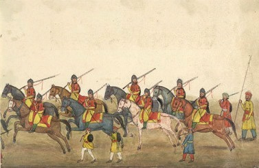 A party of Skinners Horse, raised by James Skinner in 1803. Folio from 'Reminiscences of Imperial Delhi’, an album by Thomas Metcalfe, 1843.